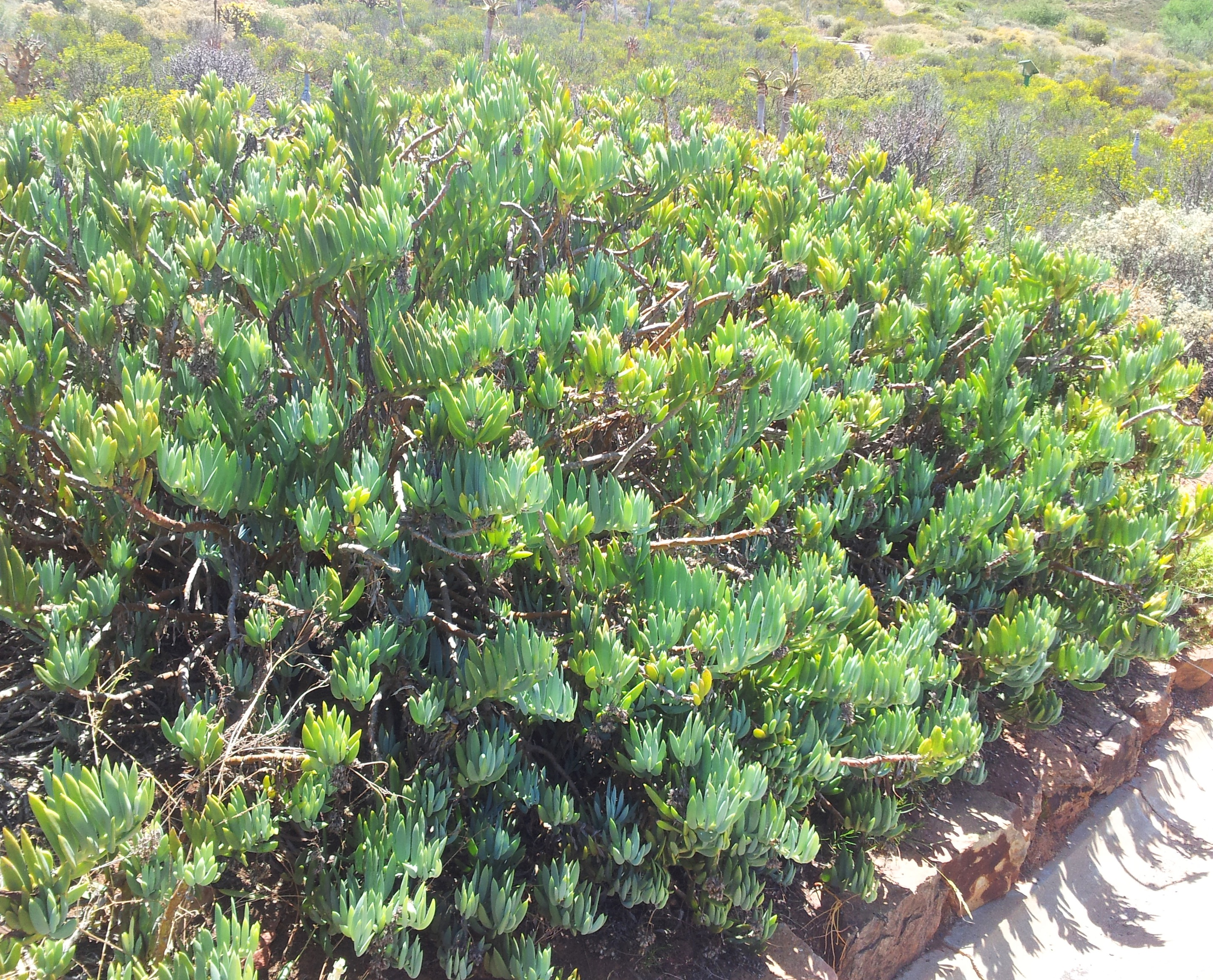 Senecio ficoides - Karoo Desert NBG - South Africa